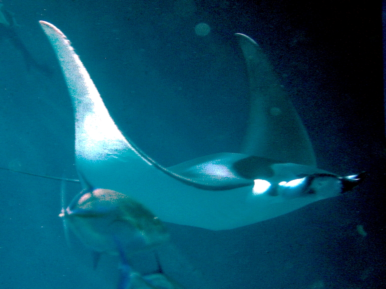 Spinetail mobula (Mobula japanica) at the Osaka Aquarium.